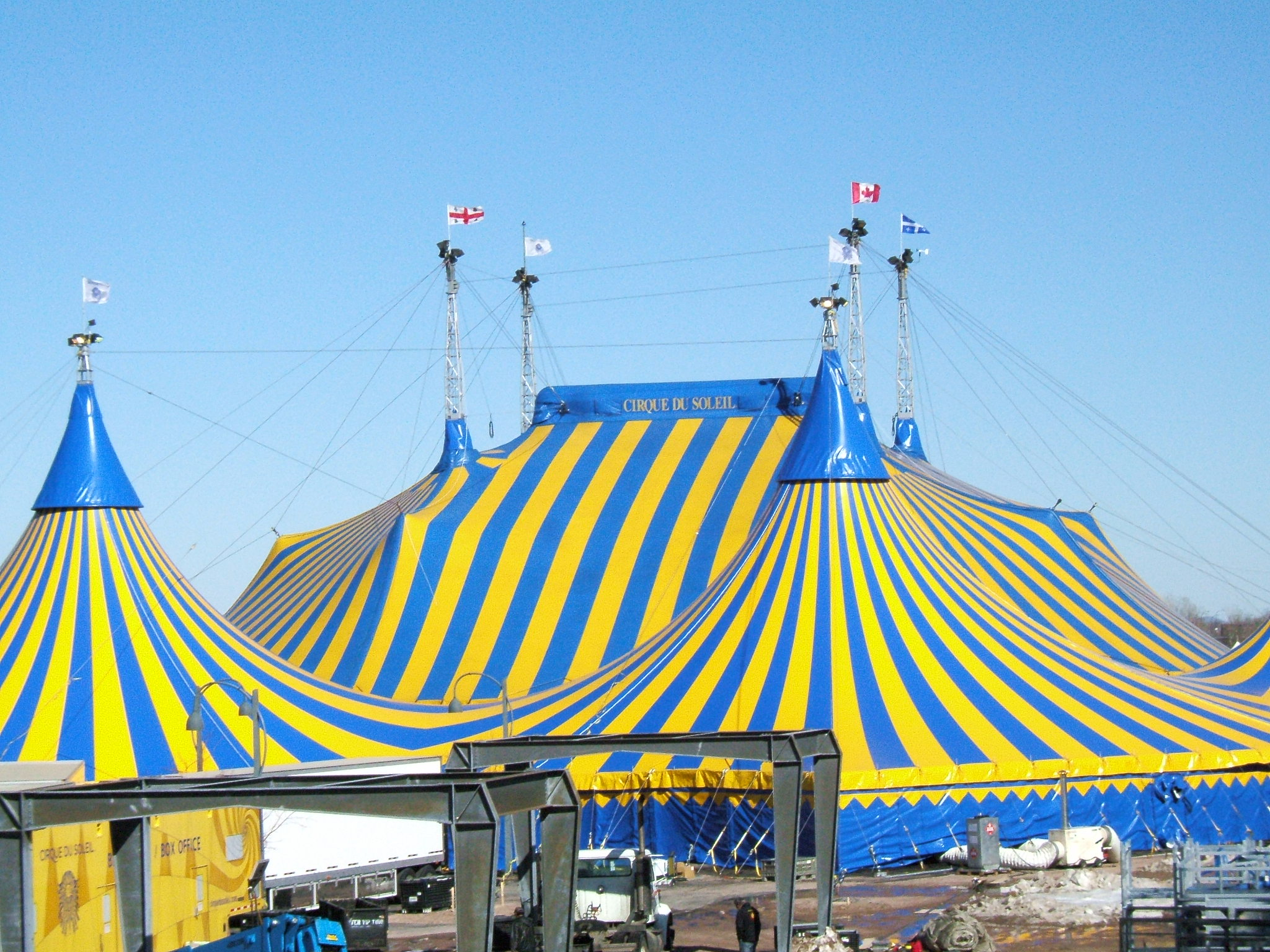 Cirque du Soleil's big top or "grand chapiteau" in Montreal, Quebec. This image was found at and is licensed Attribution-ShareAlike by photographer "spcbrass".